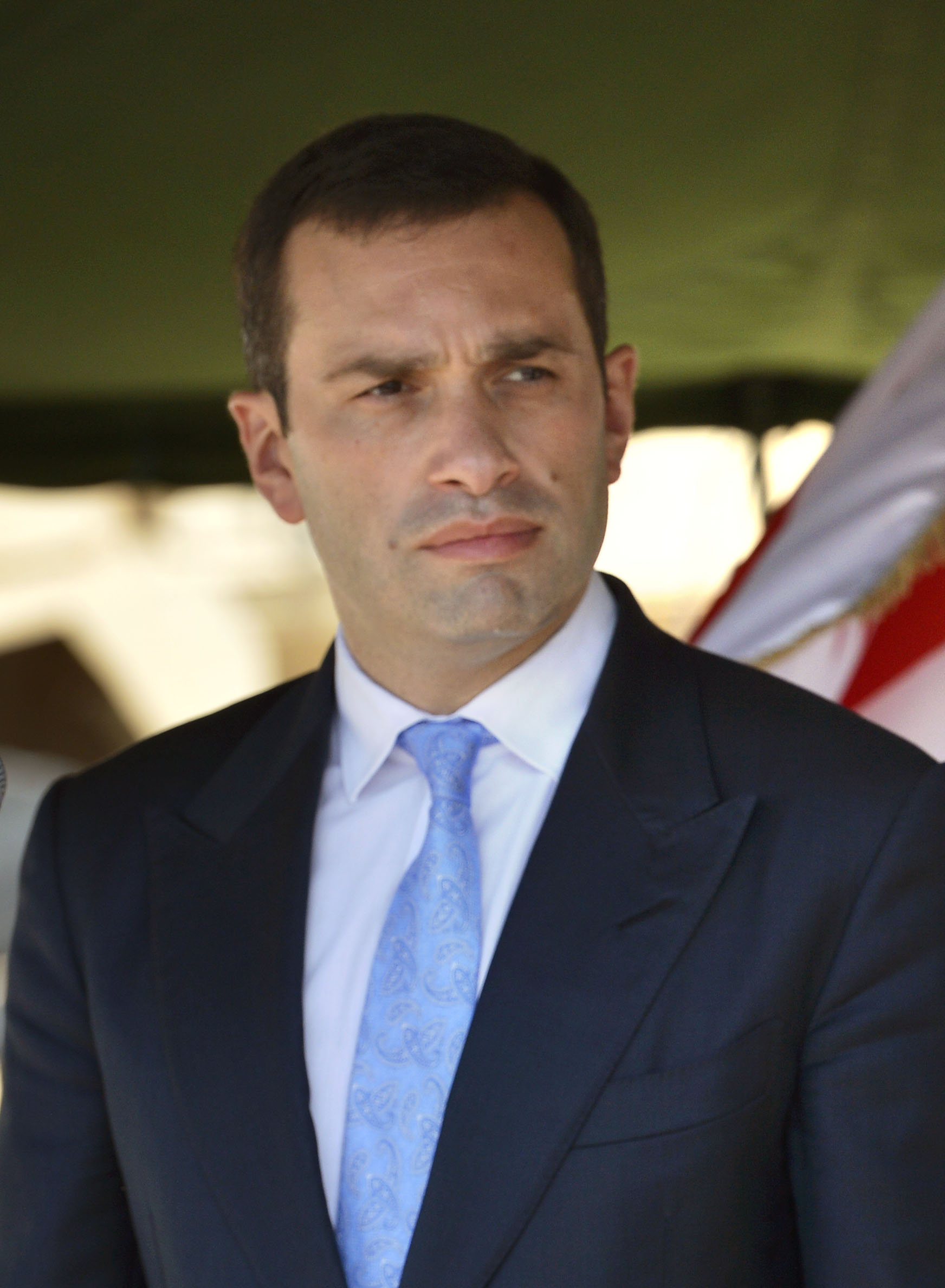 Secretary of Defense Chuck Hagel (not shown) and Georgian Minister of Defense Irakli Alasania answer questions from soldiers from a joint U.S. and Georgia force at training center in Tbilisi, Georgia, September 7, 2014.